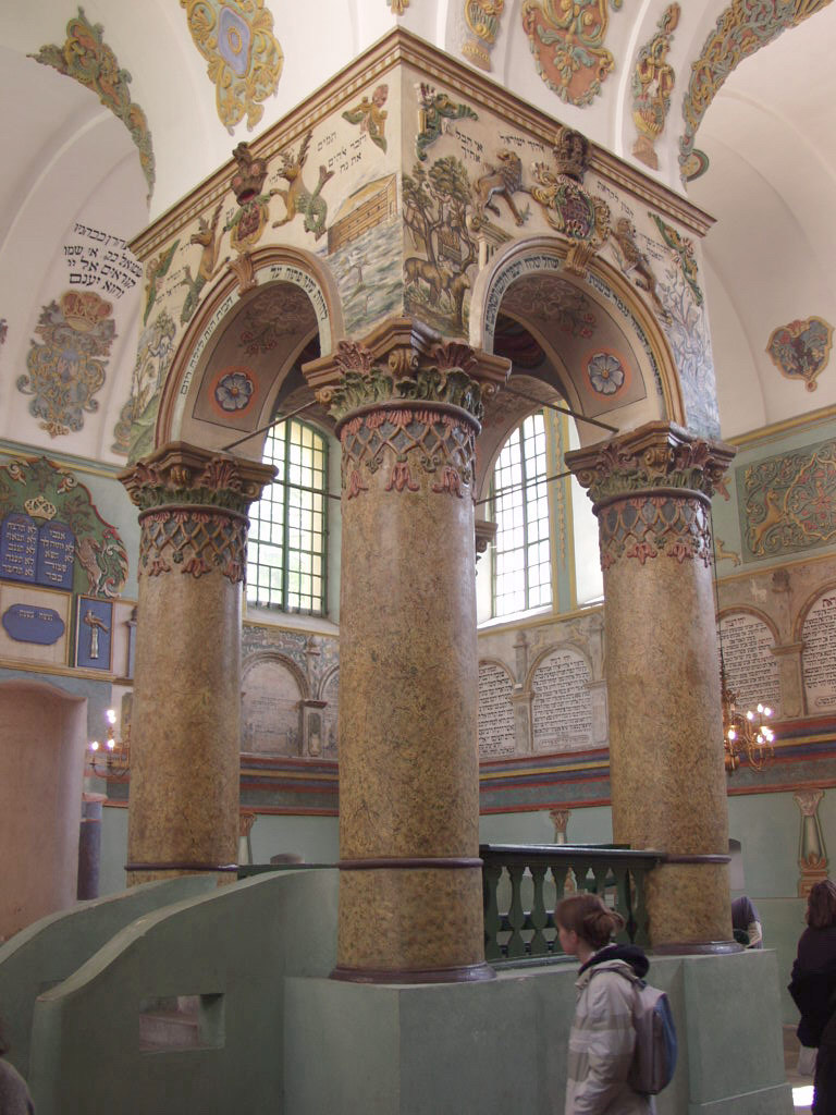 Synagogue in Łańcut